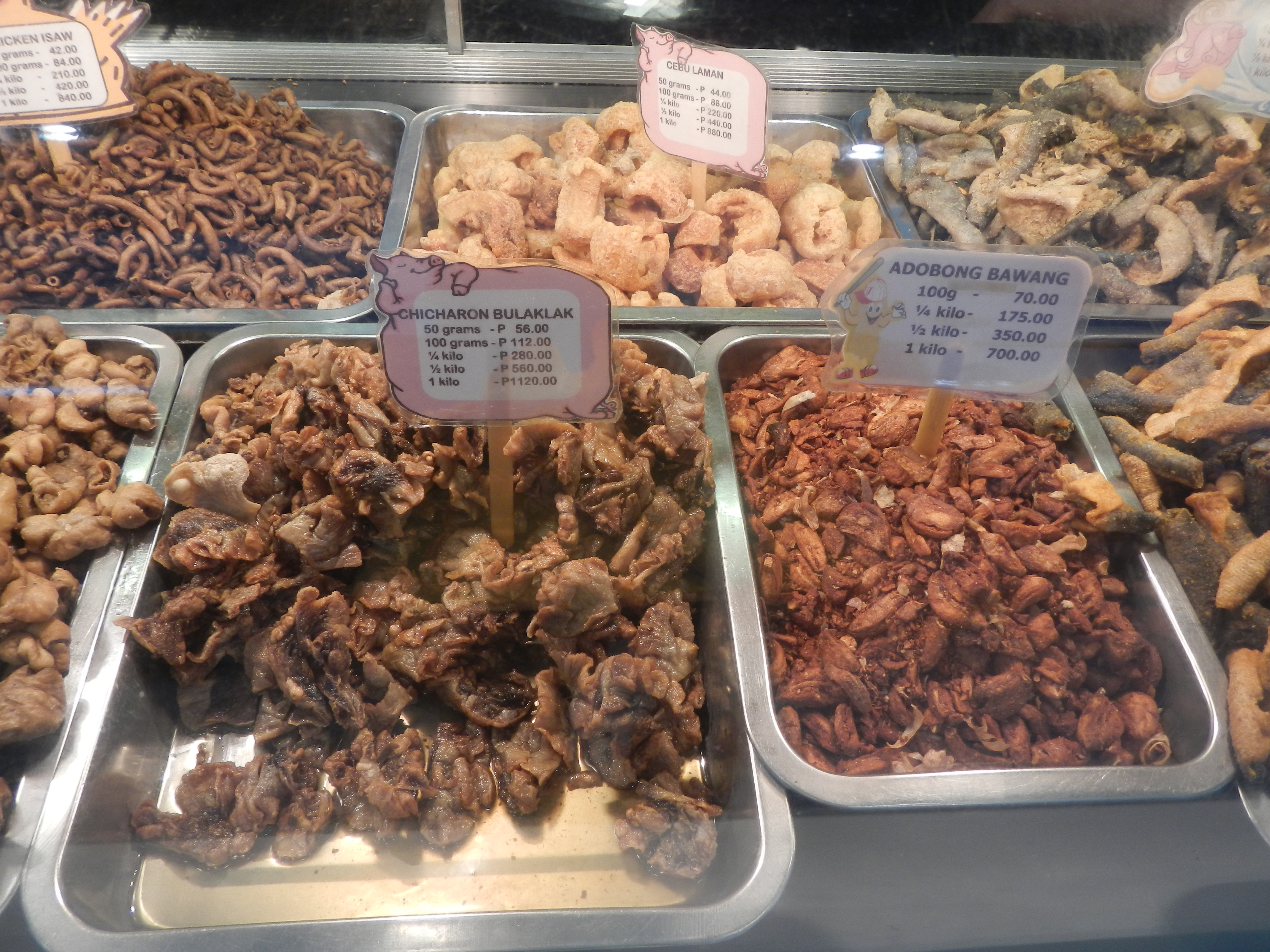 Philippine cuisine List of Philippine dishes Classic Savory products Chicharon Bopis Laing Bistek Halo-halo Fish balls Nata de coco Sago Pinipig Longaniza Lumpia wrapper Banana cue Camote cue Turon (food) in Sitio Santissima, Poblacion Public market Barangay Poblacion 14°57'17"N 120°54'2"E, Baliuag, Bulacan, Bulacan province (Note: Judge Florentino Floro, the owner, to repeat, Donor Florentino Floro of all these photos hereby donate gratuitously, freely and unconditionally all these photos to and for Wikimedia Commons, exclusively, for public use of the public domain, and again without any condition whatsoever).